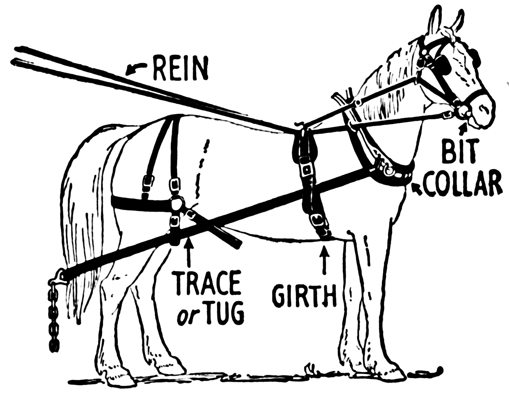 An illustration of a harness.